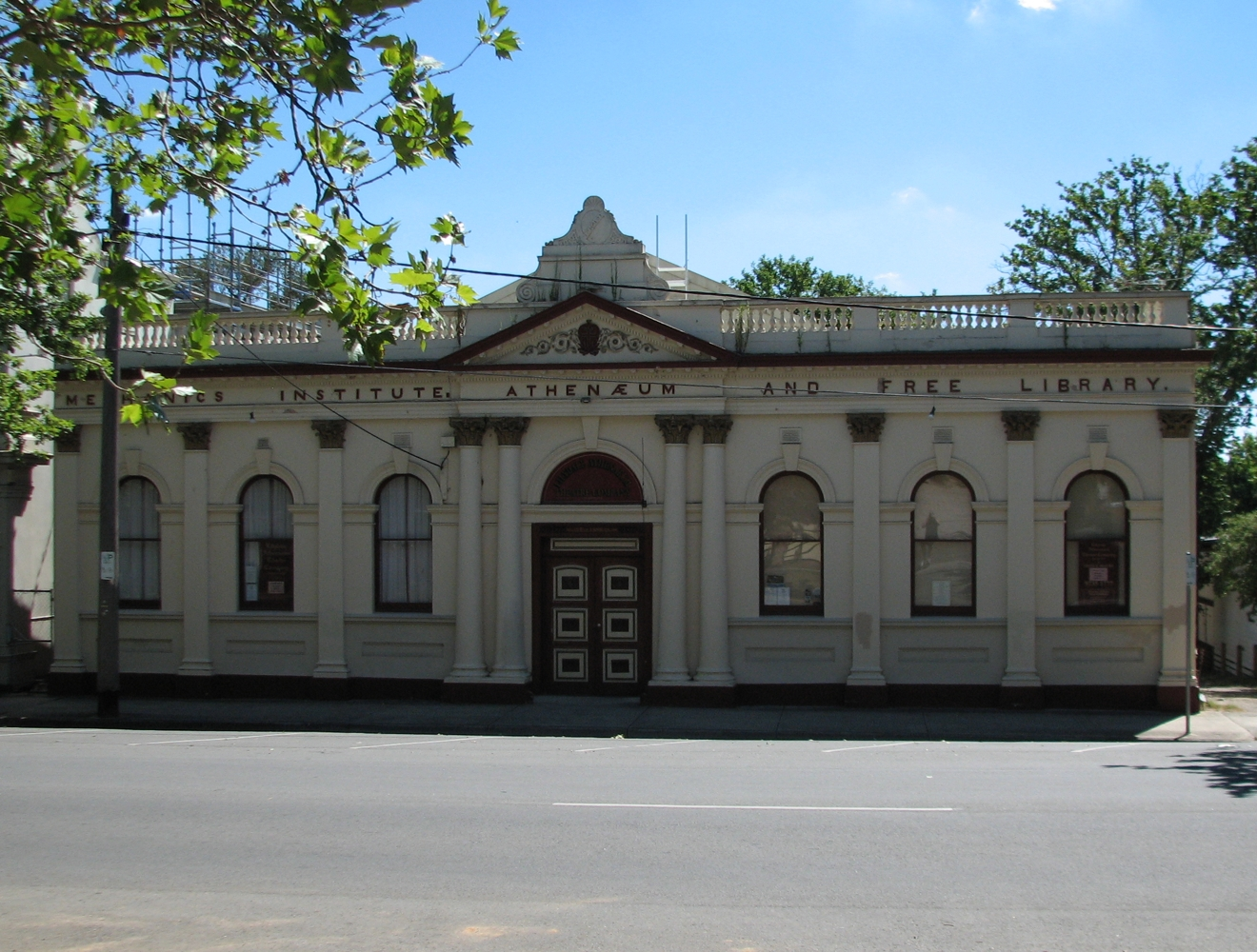 Mechanics Institute, Athaeneum and Free Library, Lilydale, Victoria, Australia